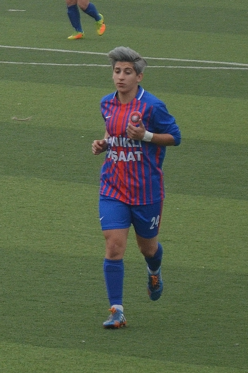 Nazlıcan Parlak for Fatih Vatan Spor in the away match against Ataşehir Belediyespor in the 2017-18 season.